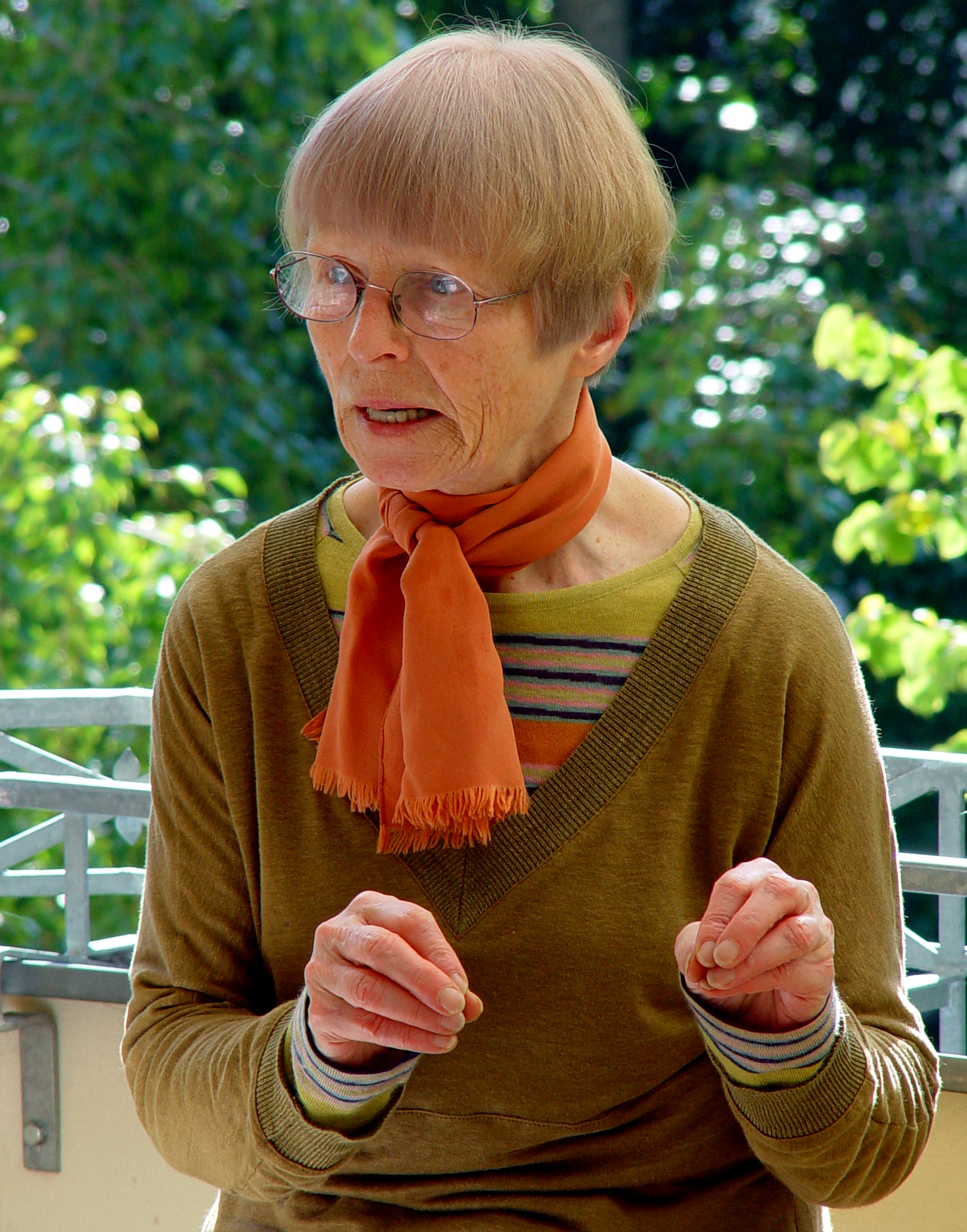 Sibylle Wirsing - a German journalist and theater critic